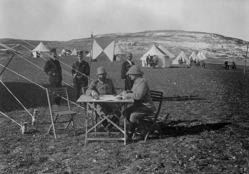 Supreme Commander of 4th Turkish Army Djemal Pascha and his chief of staff Fuad Bey at a command post in southern Palestine in April 1917.